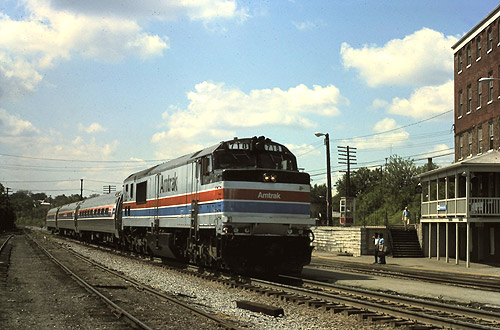 The eastbound Shenandoah at Martinsburg station in June 1977